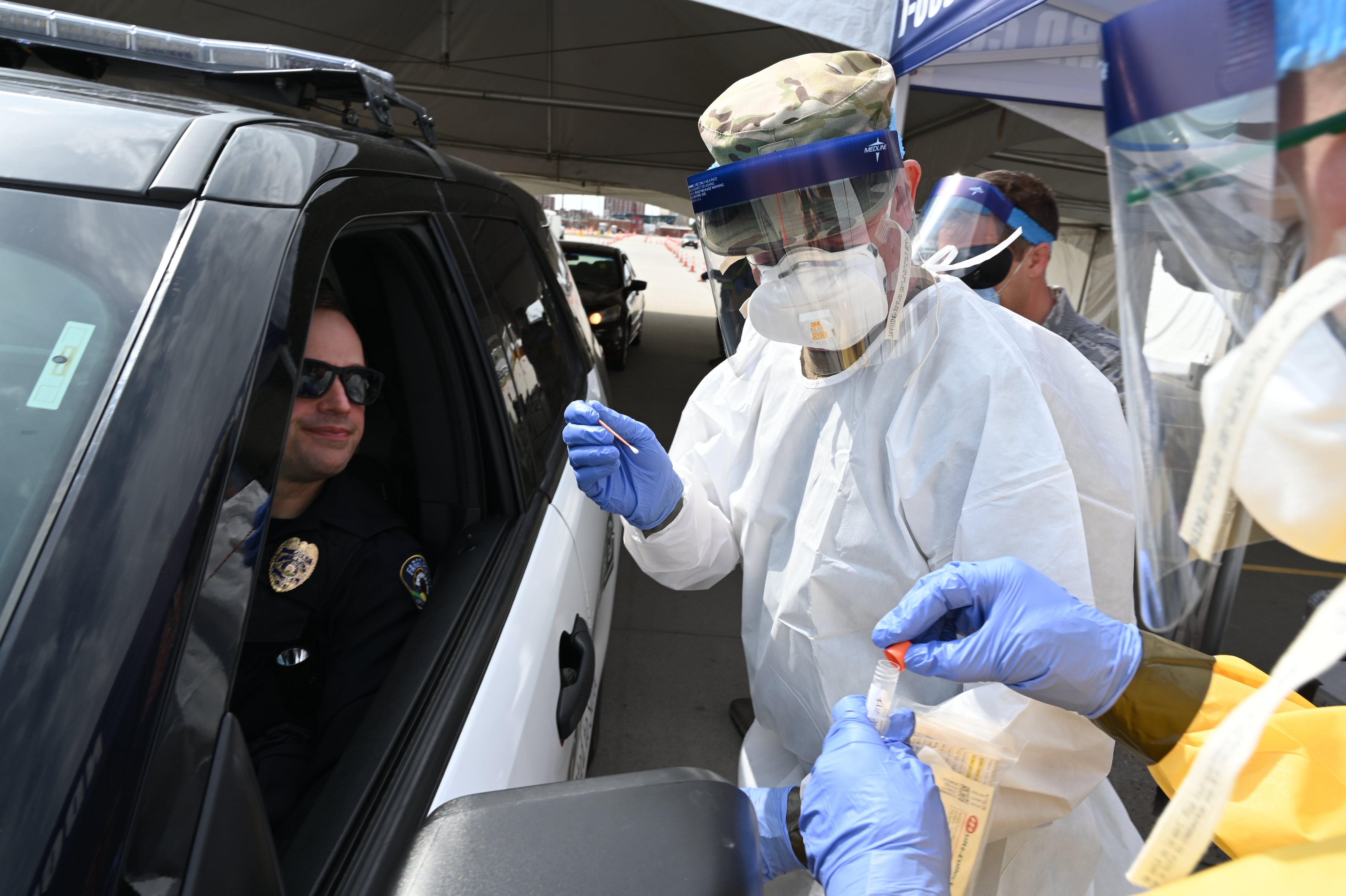 Lt. Col. Dwight Harley, of the 119th Medical Group, takes a swab sample from an asymptomatic Fargo police officer who is volunteering to take a COVID-19 test in the parking lot of the FaroDome, N.D., April 25, 2020. He is wearing personal protective equipment (PPE) to stay safe while he works and help prevent the spread of the Coronavirus while testing people as they drive through the mass testing process in their vehicles. He is just one of the many N.D. National Guard members partnering with the N.D. Department of Health and other civilian agencies in support of the whole community response to the COVID-19 pandemic. Asymptomatic first responders are among the people being tested to learn more about the Coronavirus. The healthy first responders are participating the community effort to test the mass testing process for future testing. Approximately 1,000 people were tested in the seven-hour testing event on April 25, 2020. (U.S. Air National Guard photo by CMSgt David H. Lipp)